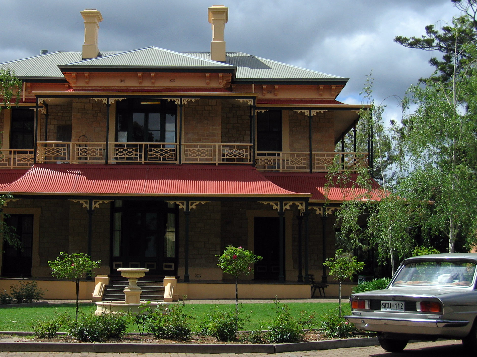 Pembroke School, Adelaide: Girton Campus.